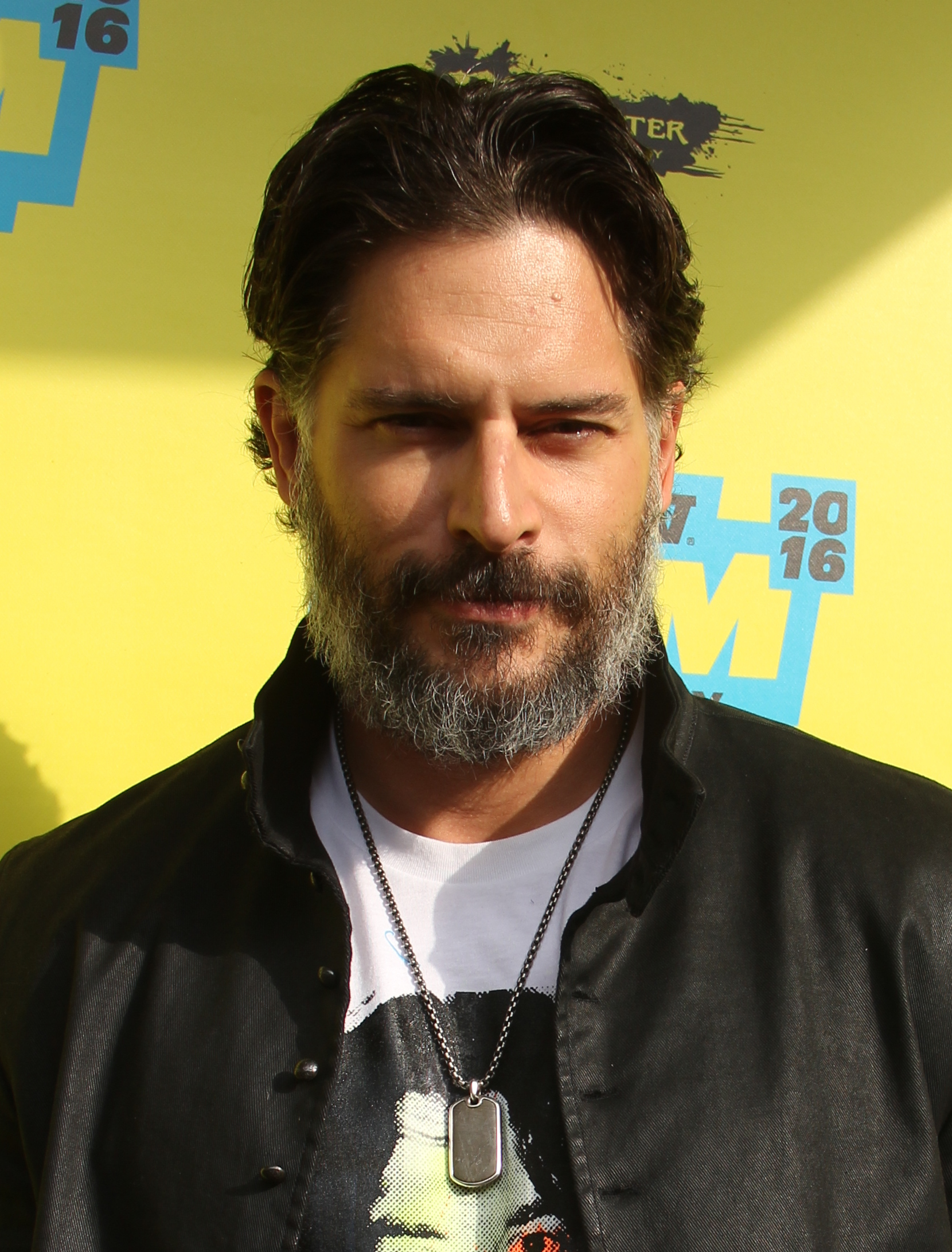 Joe Manganiello at the premiere of Pee-Wee's Big Holiday Taken at SXSW 2016.